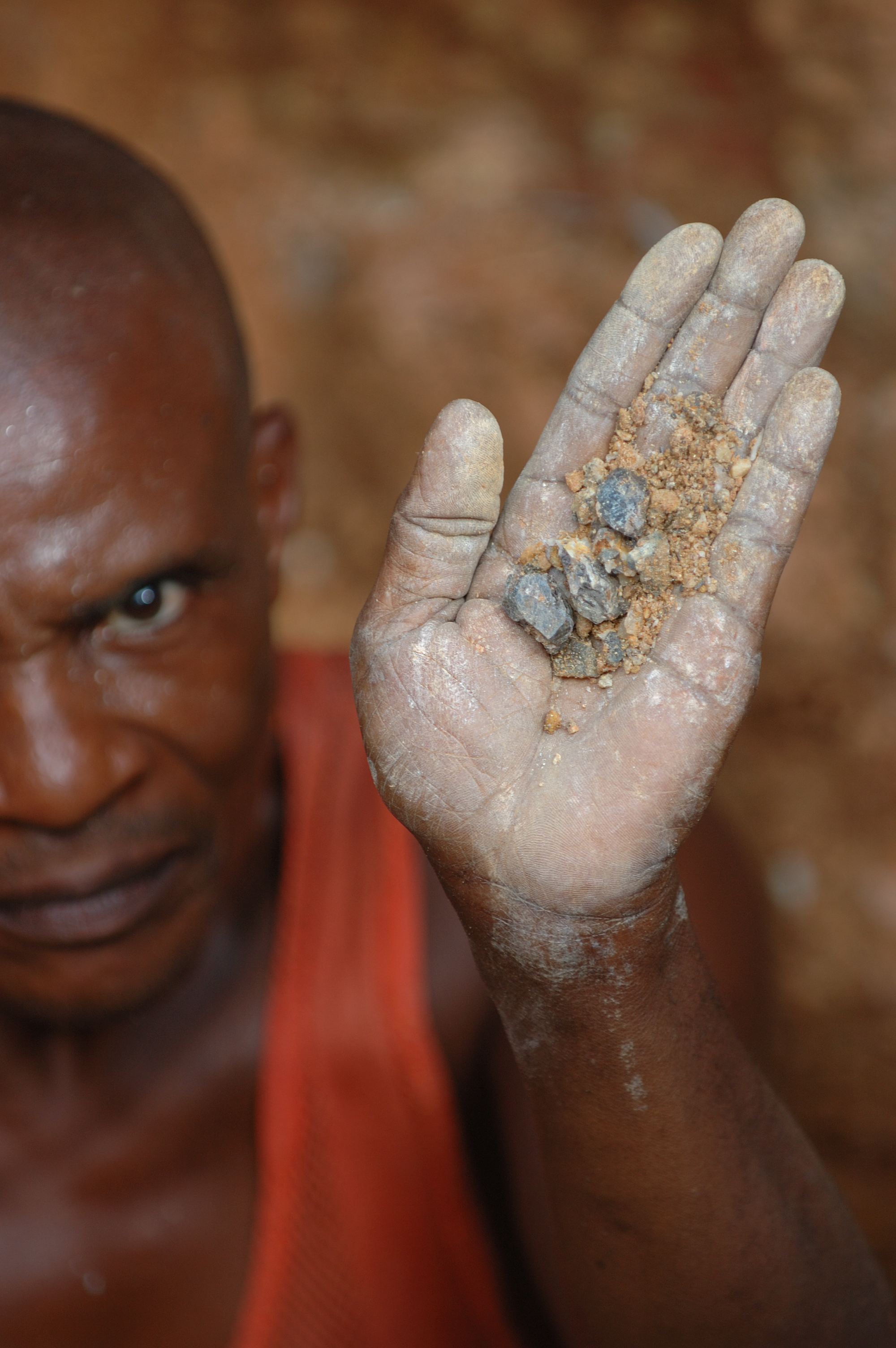 Wolframite and Casserite mining in the Democratic Republic of the Congo.